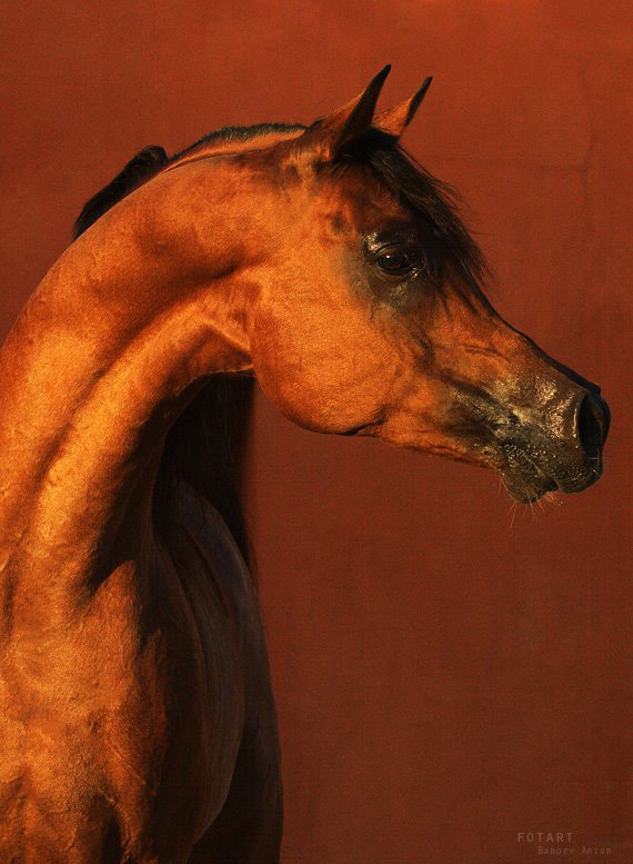 Arabian stallion Imperial Baareg